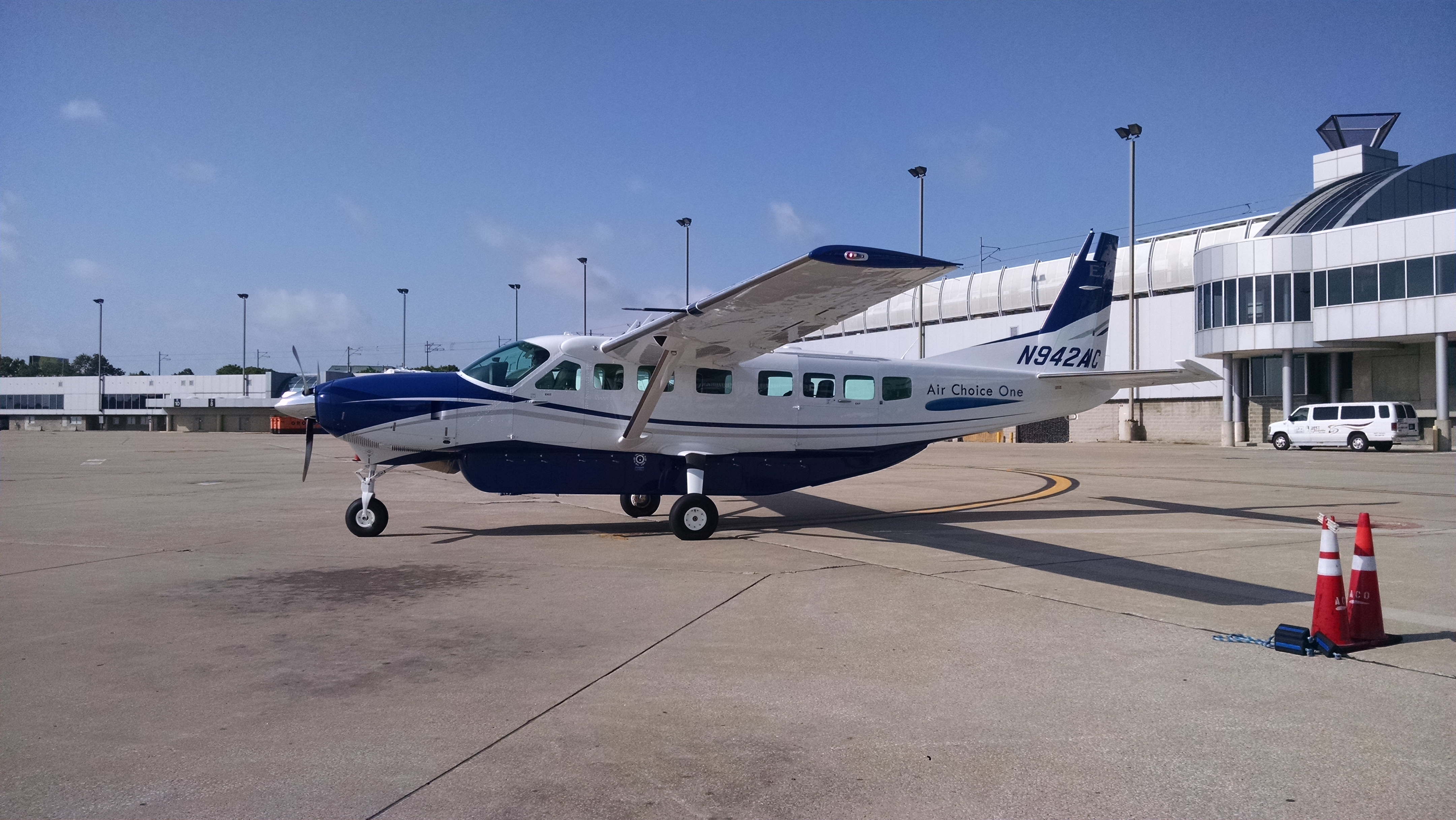 Brand new Cessna Caravan 208B EX model, N942AC.